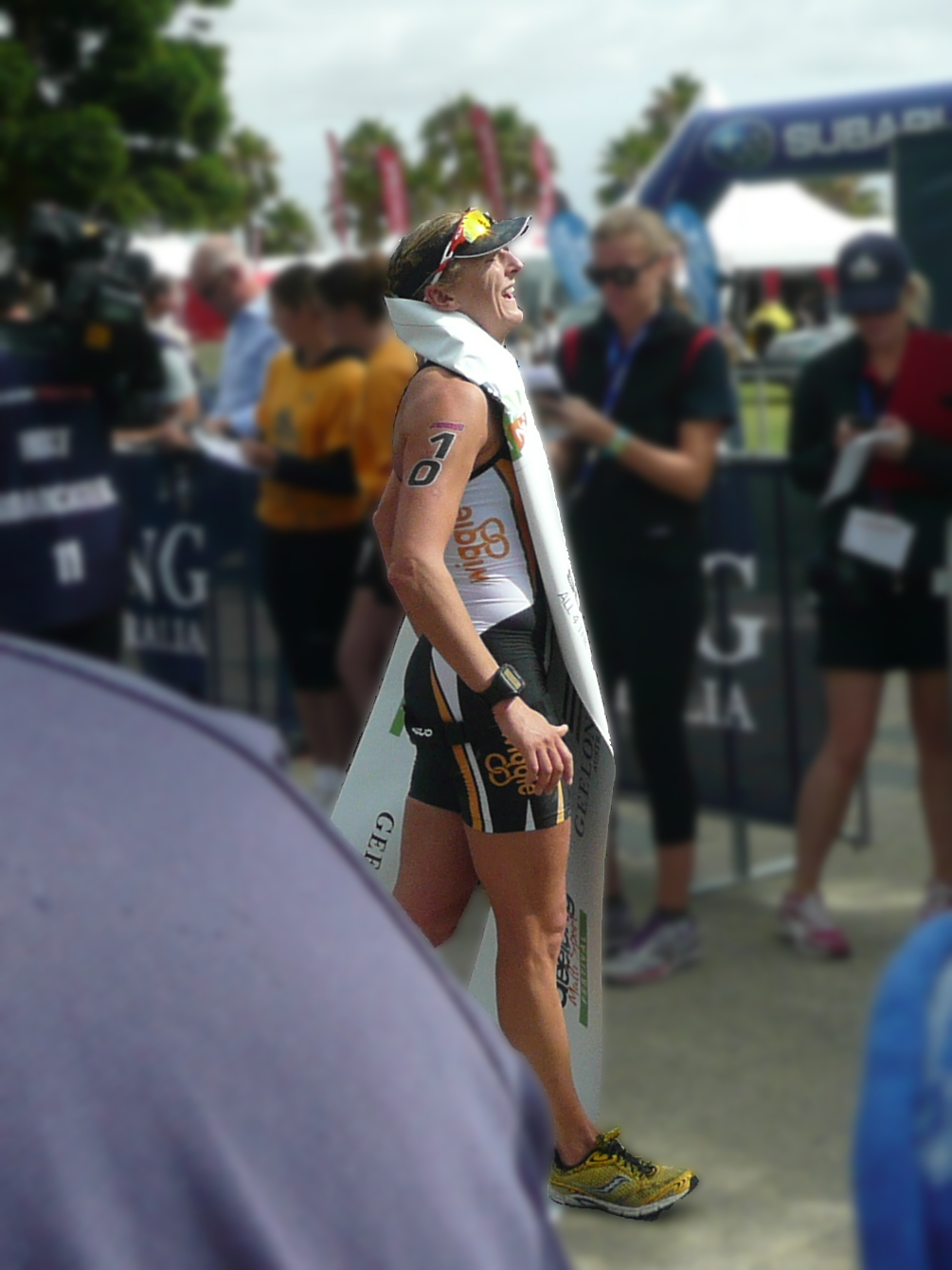 English triathlete Laura Siddall winning Geelong Triathlon 2013